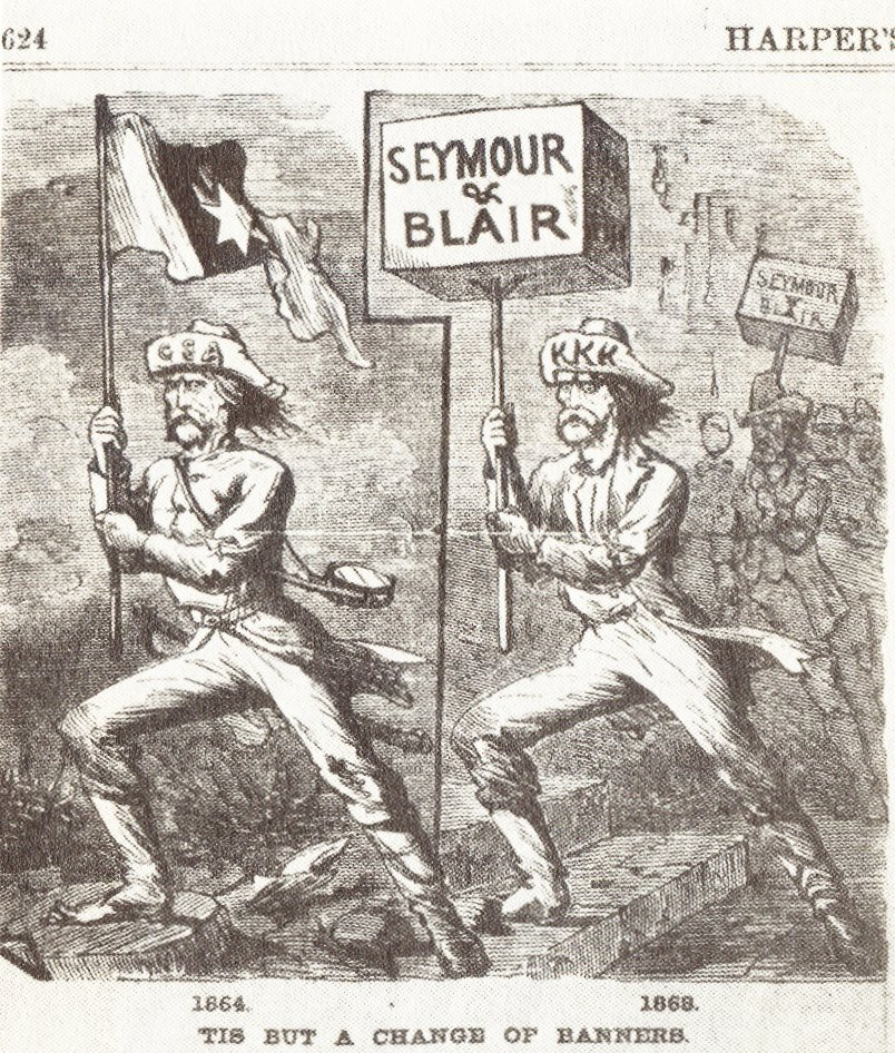 Cartoon from 1868 ("'Tis but a change in banners"), This Frank Bellew cartoon is an example of "waving the bloody shirt"-the Republican attempt to link the Democratic party with secession and the Confederate cause.